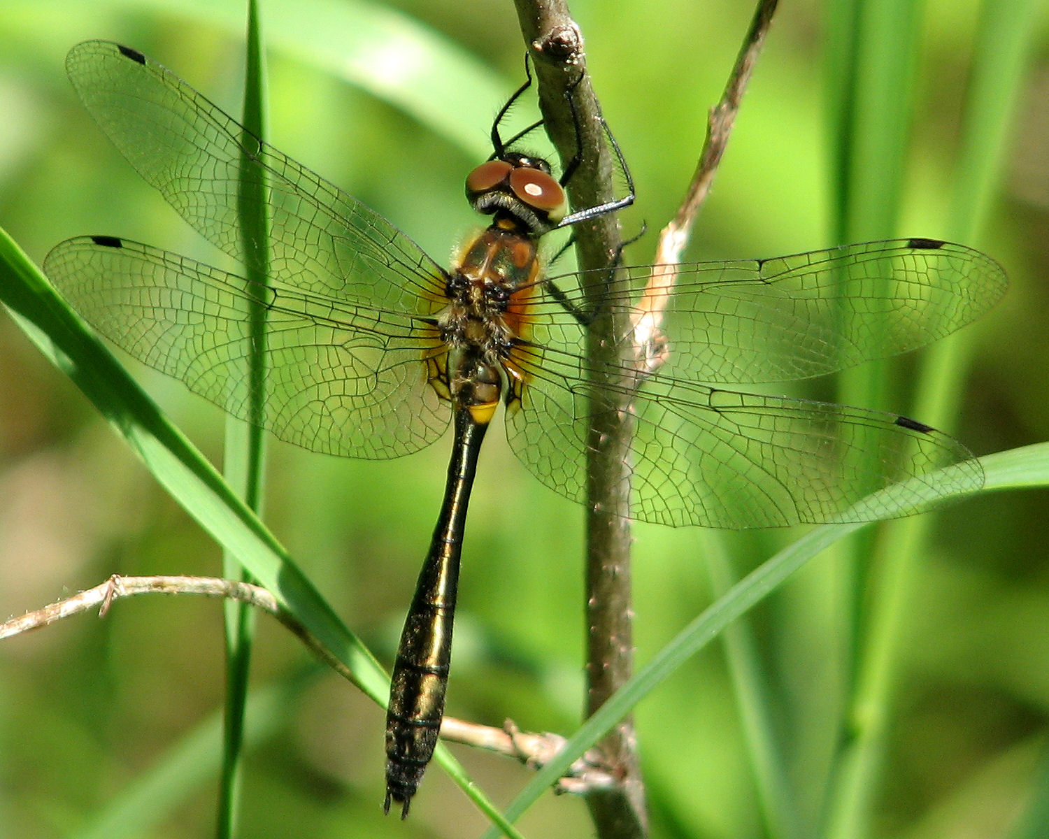 Racket-tailed Emerald (Dorocordulia libera), Ottawa, Ontario, Canada